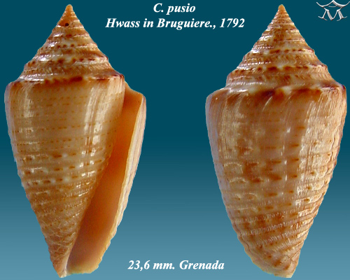 Conasprella pusio (Hwass in Bruguière, 1792) (synonym: Conus pusio)